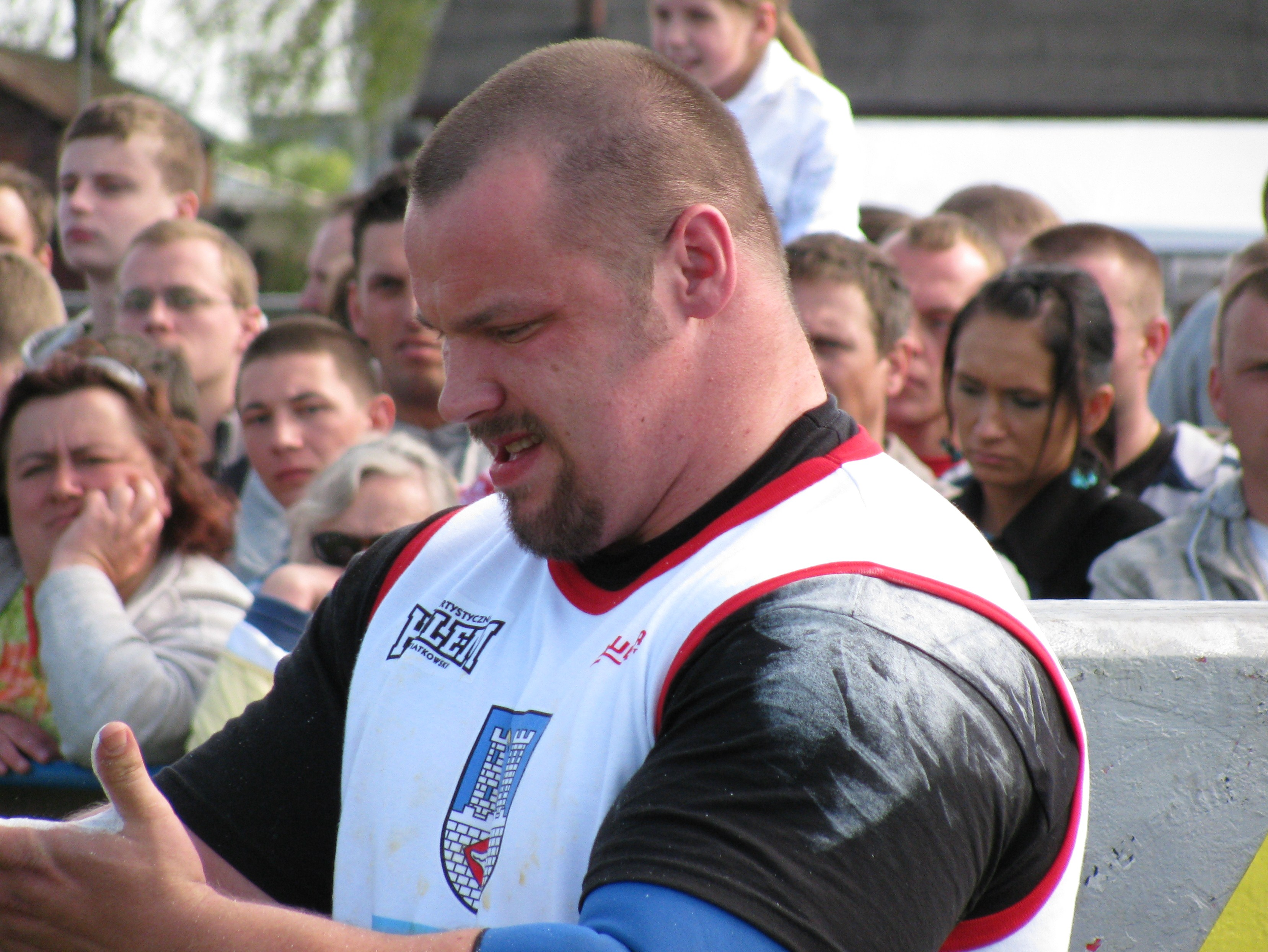 Michal Szymerowski - a strength athlete from Poland